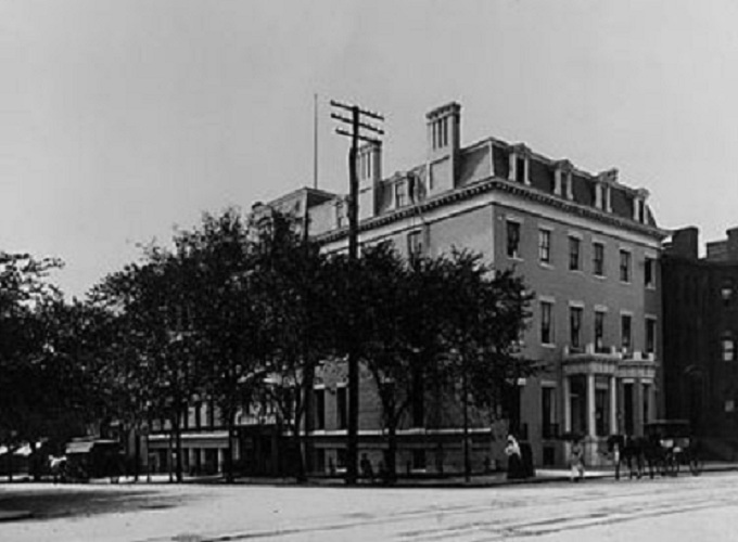 Wormley's Hotel was a five-story hotel at 1500 H Street, NW, Washington D.C. The hotel was owned by James Wormley, a free-born black man who had spent time in Europe learning fine culinary skills. The hotel was the site of the Wormley Agreement, which led to the Compromise of 1877 and the election of President Rutherford B. Hayes. The hotel was later demolished and the Union Trust Company built on its site in 1906.